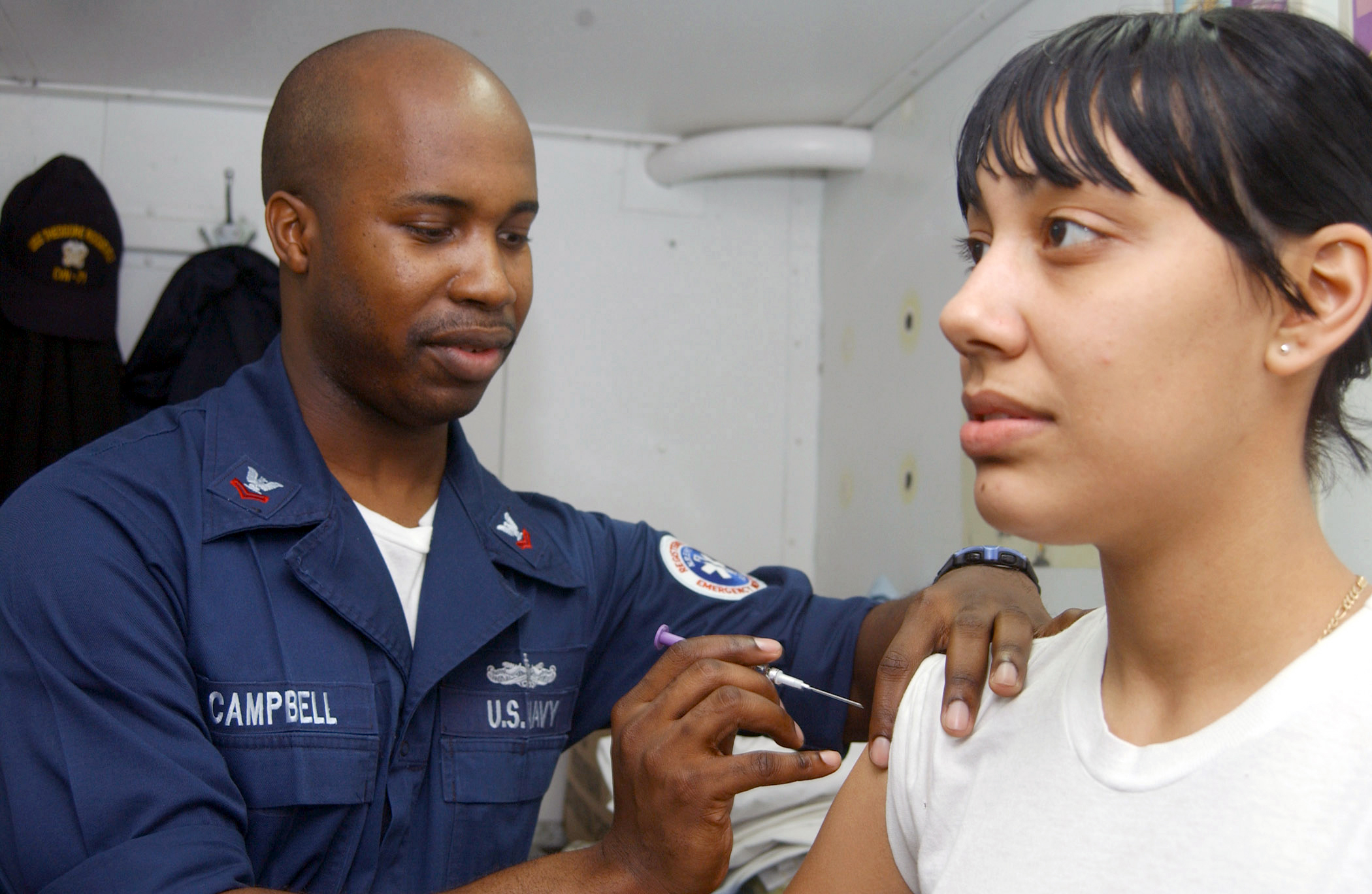 At sea aboard USS Theodore Roosevelt (CVN 71) Jan. 24, 2003 -- Hospital Corpsman 2nd Class Brian Campbell from Kannapolis, N.C., gives a patient a shot to treat an allergic reaction. Roosevelt is conducting training exercises in the Caribbean Sea, while preparing to deploy to the Central Command Area of Responsibility. U.S. Navy photo by Photographer's Mate 2nd Class Michelle McCandless. (RELEASED)